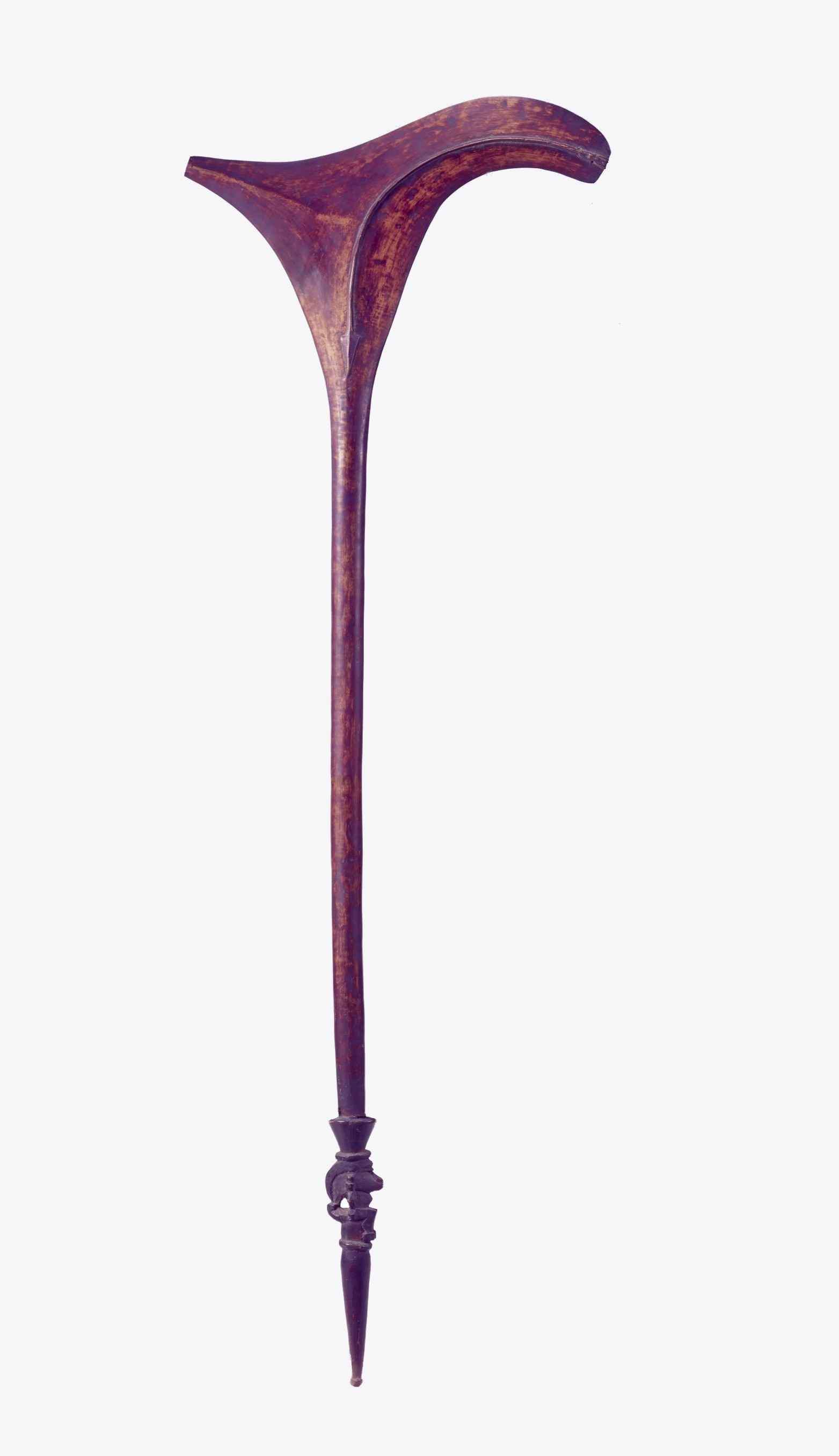 Bouclier composé d'un long manche circulaire pointu à sa base et décoré d'une figure assise, sculptée en ronde-bosse. La pale du bouclier s'évase et se divise en deux parties. L'une forme une pointe courte tandis que l'autre dessine une ligne courbe arrondi au bout. Cette partie courbée est gravée dans le bois d'une nervure médiane qui se termine à la base de la pale par un motif en flèche. A son extrémité, sont accrochés par un lien passé dans un trou quatre pendeloques de fibres végétales dont la base est décorée d'une enfilade de perles de coquillages (disques percés) blancs. Une perle noire (noix de coco ?) est insérée dans chacune de ces enfilades. Un anneau d'osier, lache et non fermé, est enfilé sur le manche.